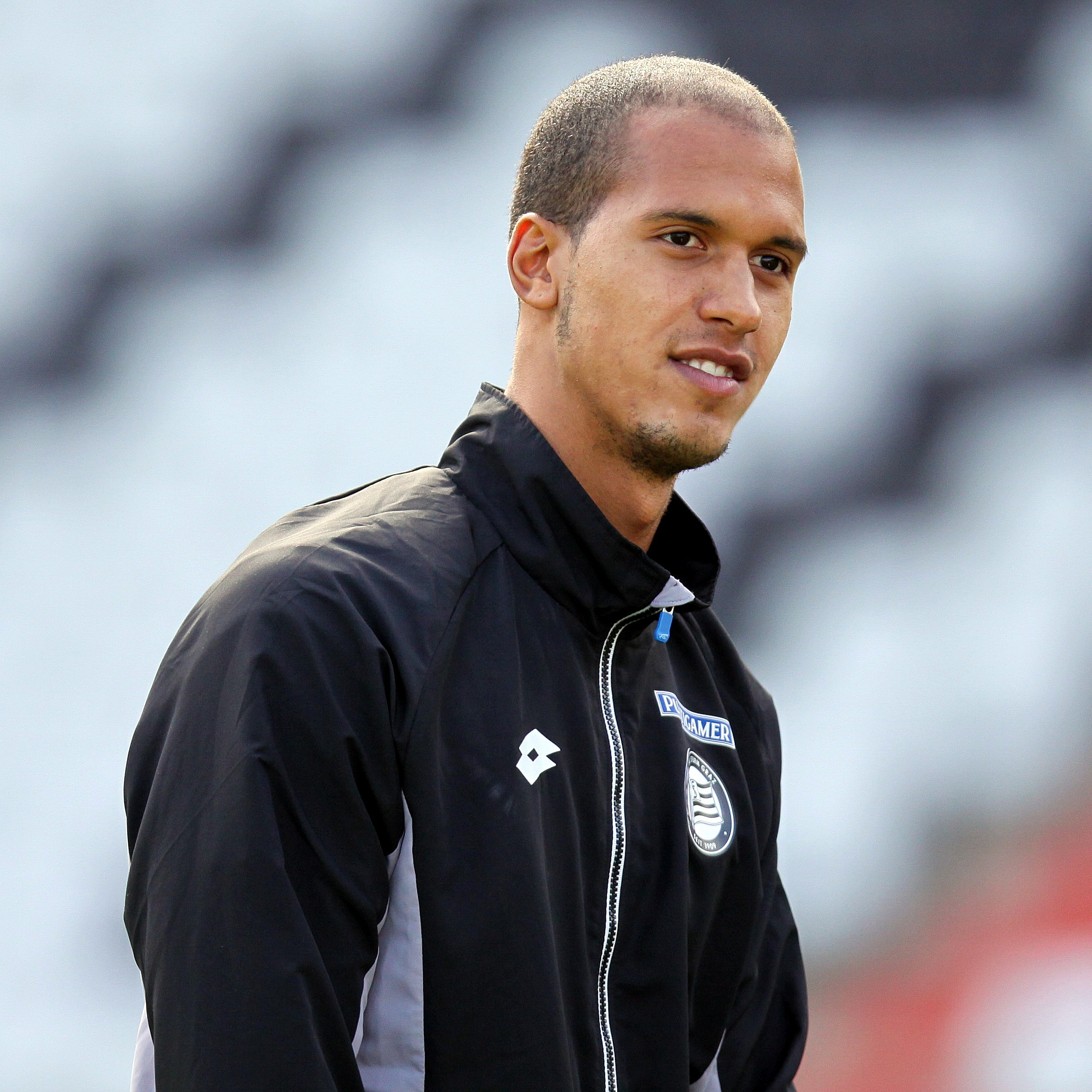 Match of the Austrian Football Bundesliga – FC Admira Wacker Mödling (red shirts) vs. SK Sturm Graz (white shirts) 0-1 (0-0) on 2015-09-27 in Bundesstadion Sudstadt – The photo shows Christian Schoissengeyr (SK Sturm Graz)